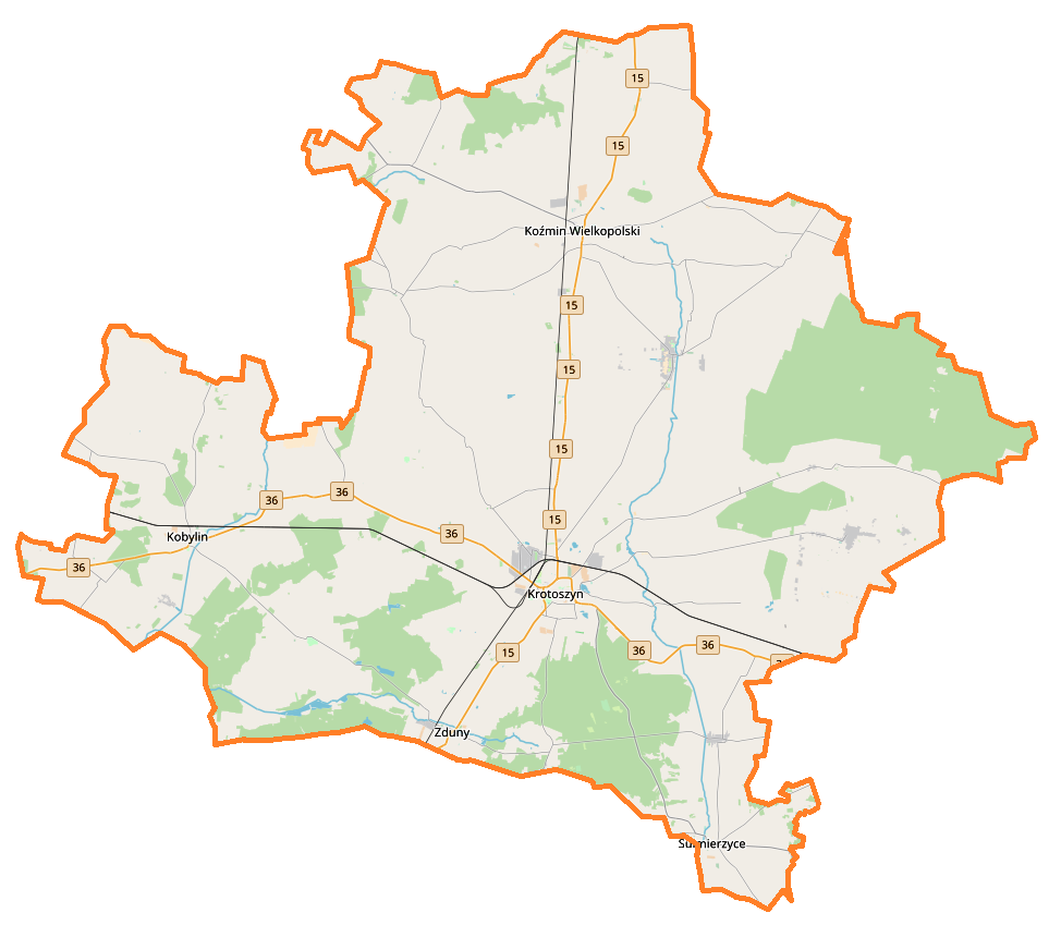 Map of Powiat krotoszyński, Poland This map of Powiat krotoszyński was created from OpenStreetMap project data, collected by the community. This map may be incomplete, and may contain errors. Don't rely solely on it for navigation.